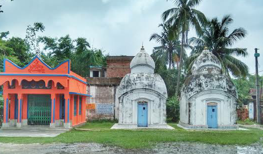 Rokha Kali Temple Manirampur , CHANDITALA-I , Hooghly